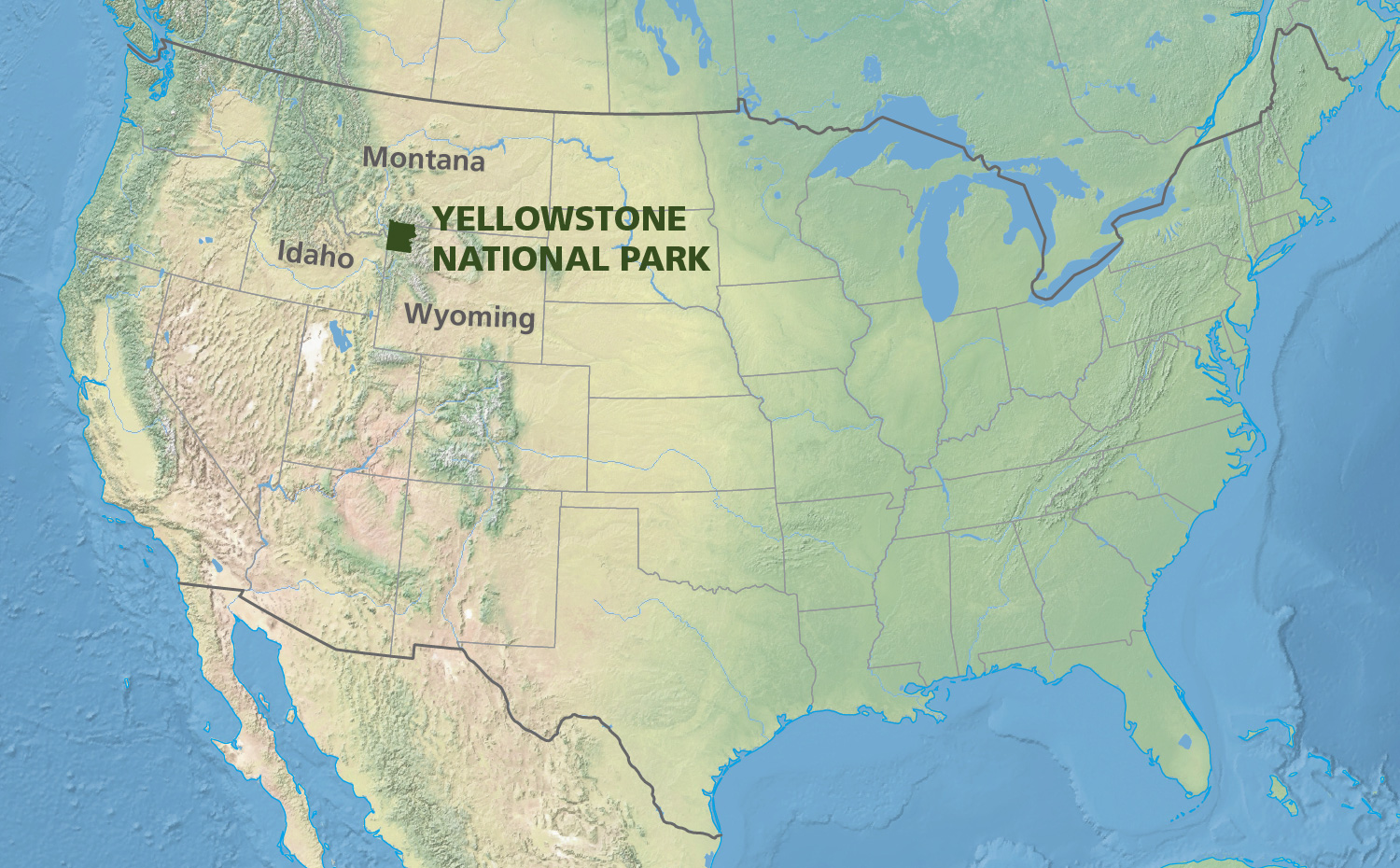 Lambert Azimuthal Equal Area projection (US National Atlas Equal Area). All data from .